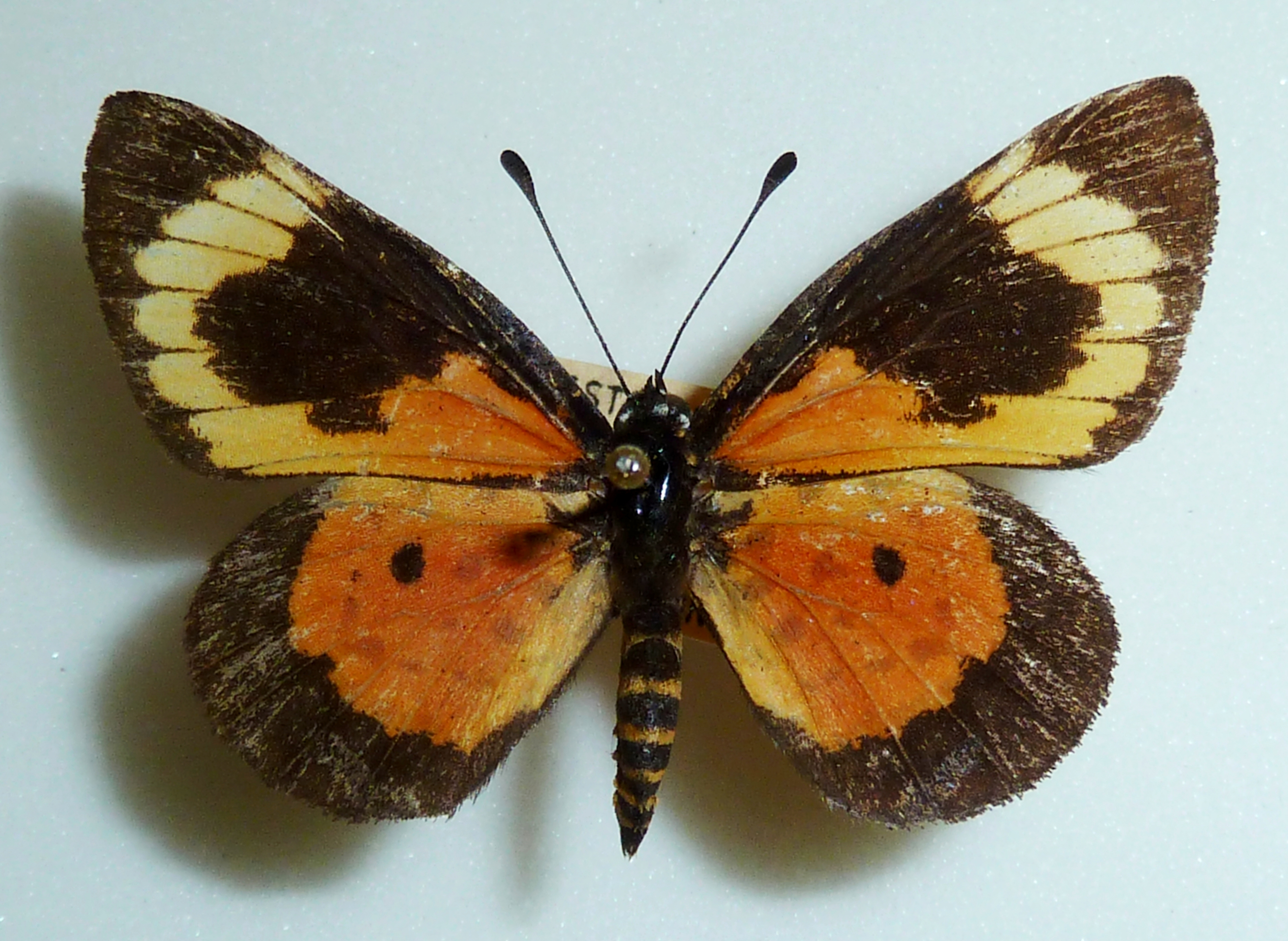 Cooksonia neavei rhodesiae collected at Criston Bank, Harare, Zimbabwe